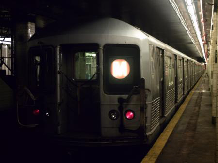 M train of R42s at Chambers Street